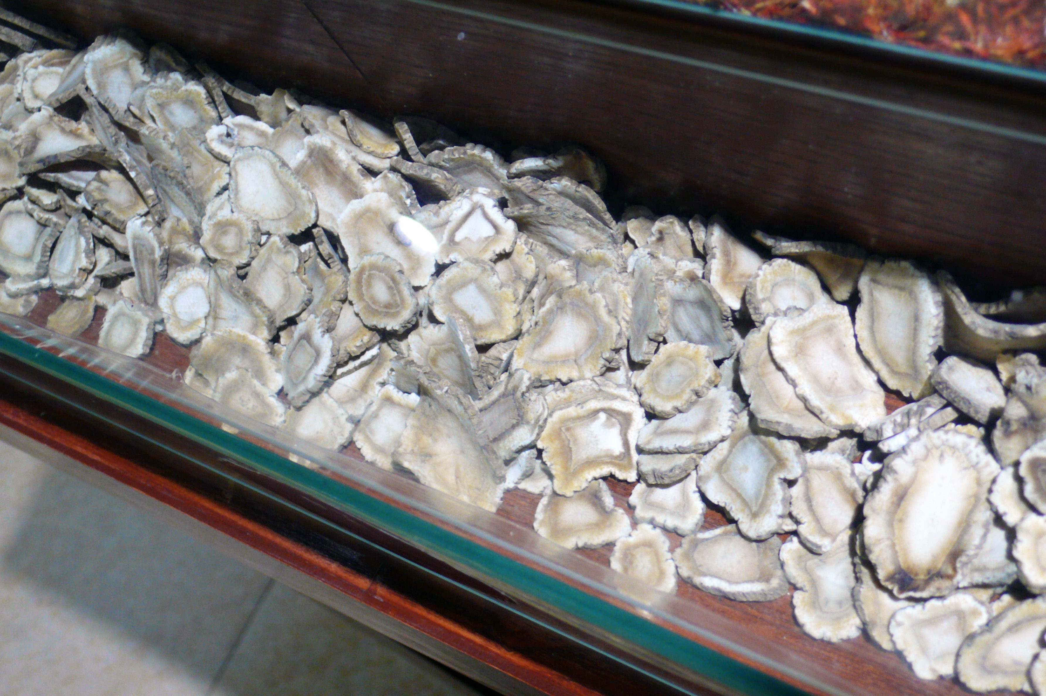 Pieces of dried root of Chinese Angelica.